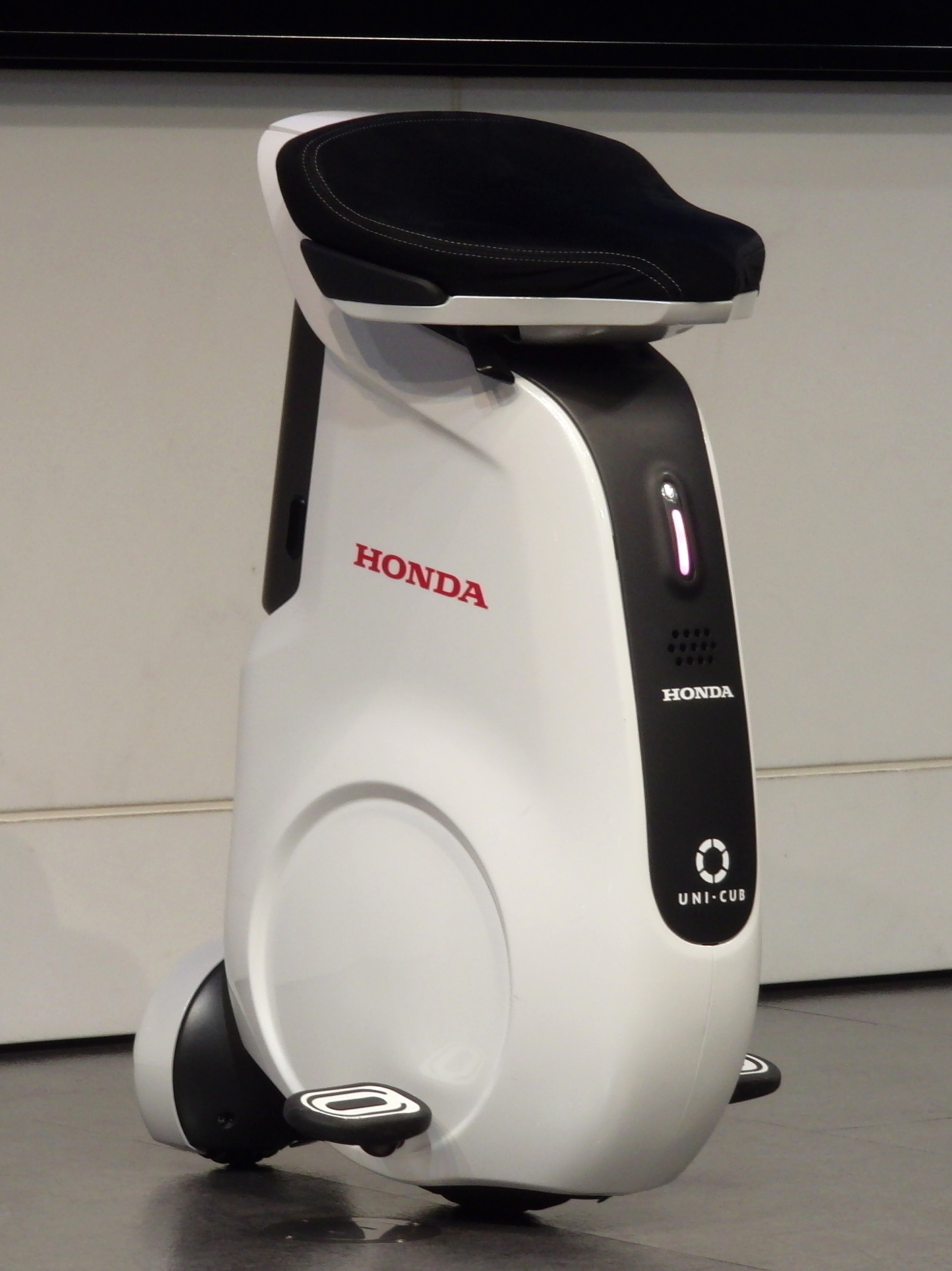 Honda UNI-CUB at Honda welcome-plaza Aoyama